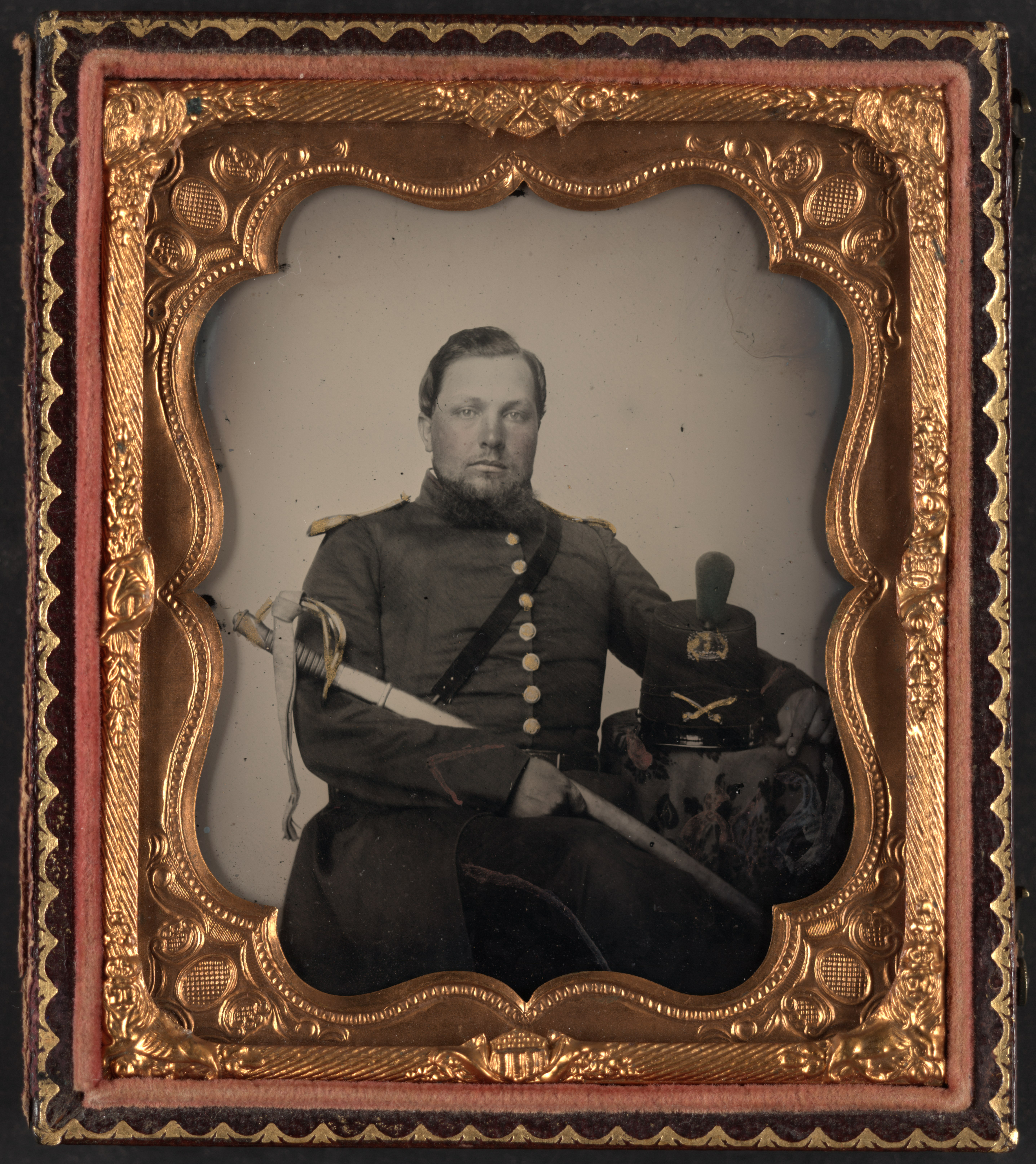 Title: Captain Robert Emmet Robinson of Petersburg Light Dragoons, later assigned to Co. D, 5th Virginia Cavalry Regiment, in uniform with Virginia state seal swordbelt plate and sword Abstract/medium: 1 photograph : hand-colored ambrotype ; plate 82 x 70 mm (sixth plate format), case 93 x 81 mm.